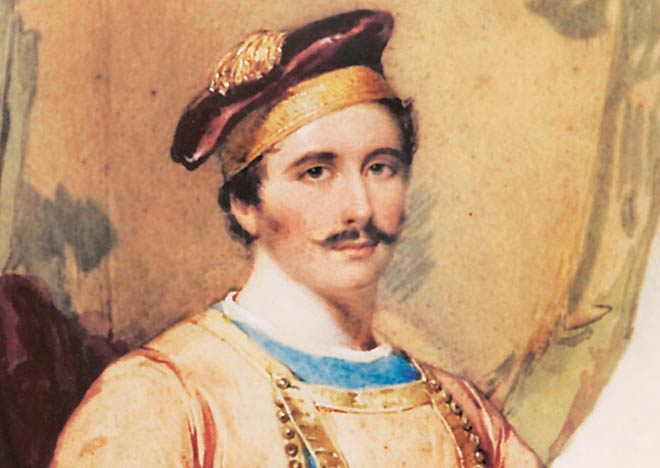 William Fraser, British Resident during 1830 - 1835. Painting by Robert Home circa 1806